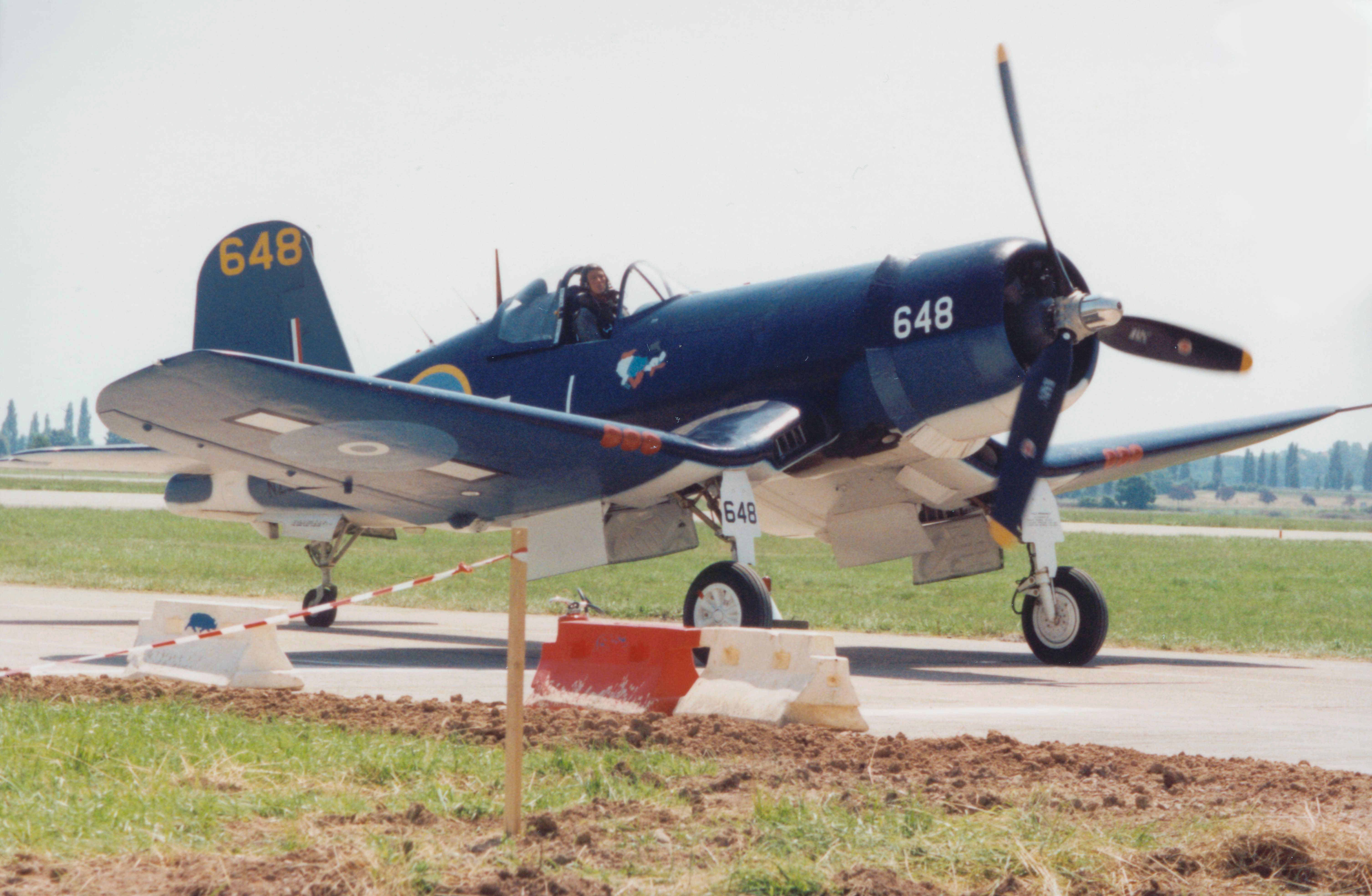 Corsair FG-1D (Goodyear built, equal to the F4U-1D) from which the rocket launcher stubs and pylons have been taken off, wearing the colours of the Royal New Zealand Air Force (RNZAF). Notice the clipped wing tips, a characteristic of the carrier-based British Corsairs (lower deck height than US carriers); Bureau number : 88391; Wartime registration : NZ5648; Current civil registration : G-BXUL; Owner : The Old Flying Machine Company (OFMC); Place : Strasbourg airport, France